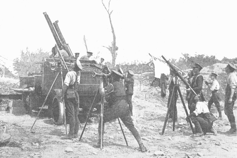 British 13 pounder 9 cwt anti-aircraft gun mounted on Thornycroft Type J lorry. The gunner in the center is operating a Height/Fuse Indicator (HFI) on the tripod. The gunner on the right is operating an Identification telescope on the tripod.